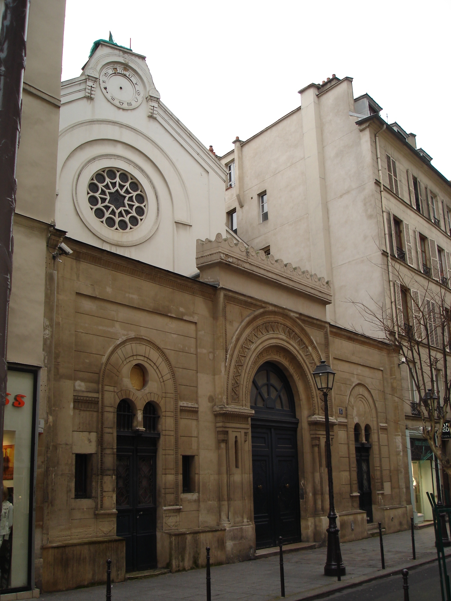 Synagogue of the rue Notre-Dame-de-Nazareth, external view